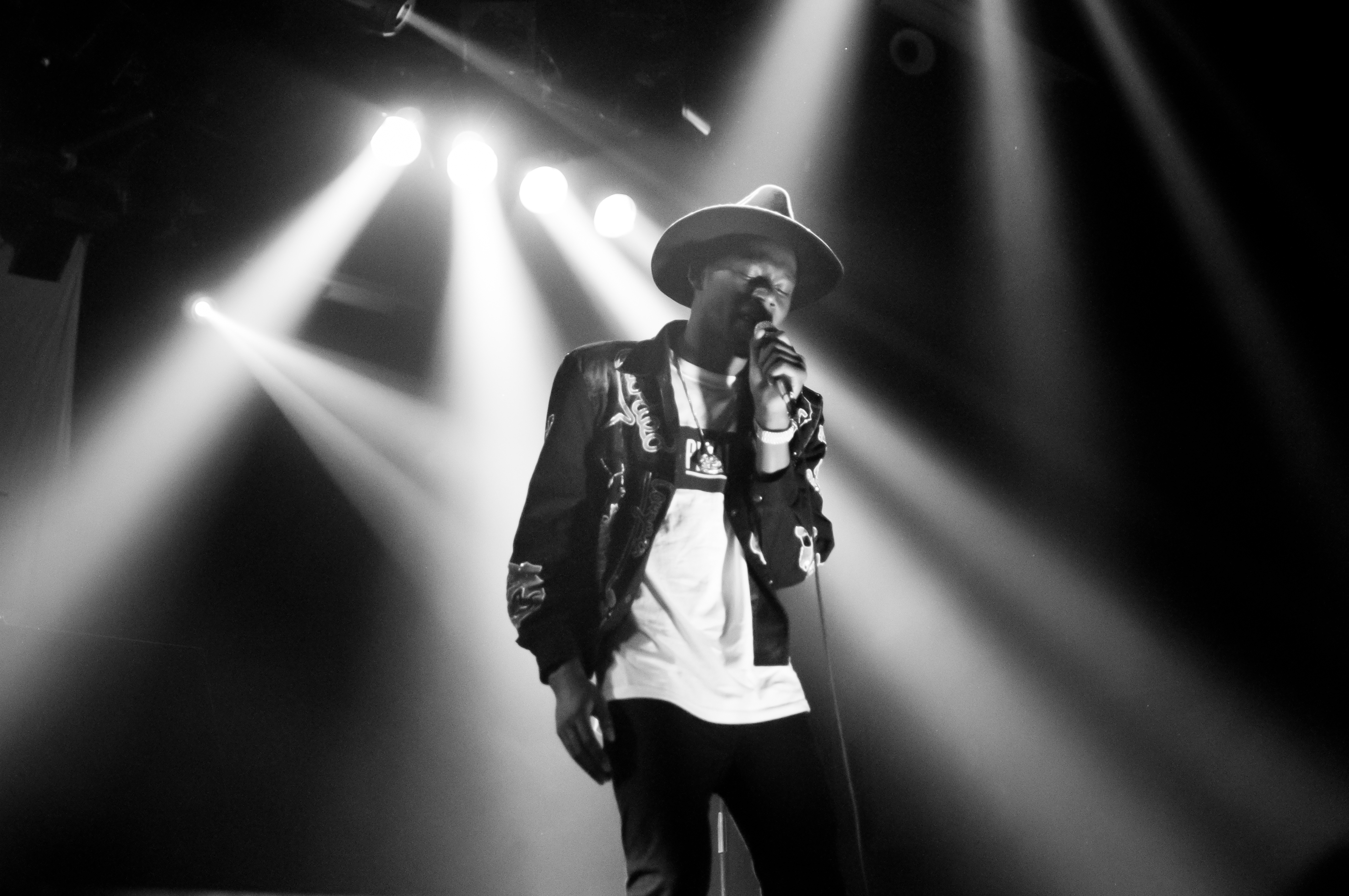 Theophilus London Taken at Fri-Son in Fribourg, Switzerland.